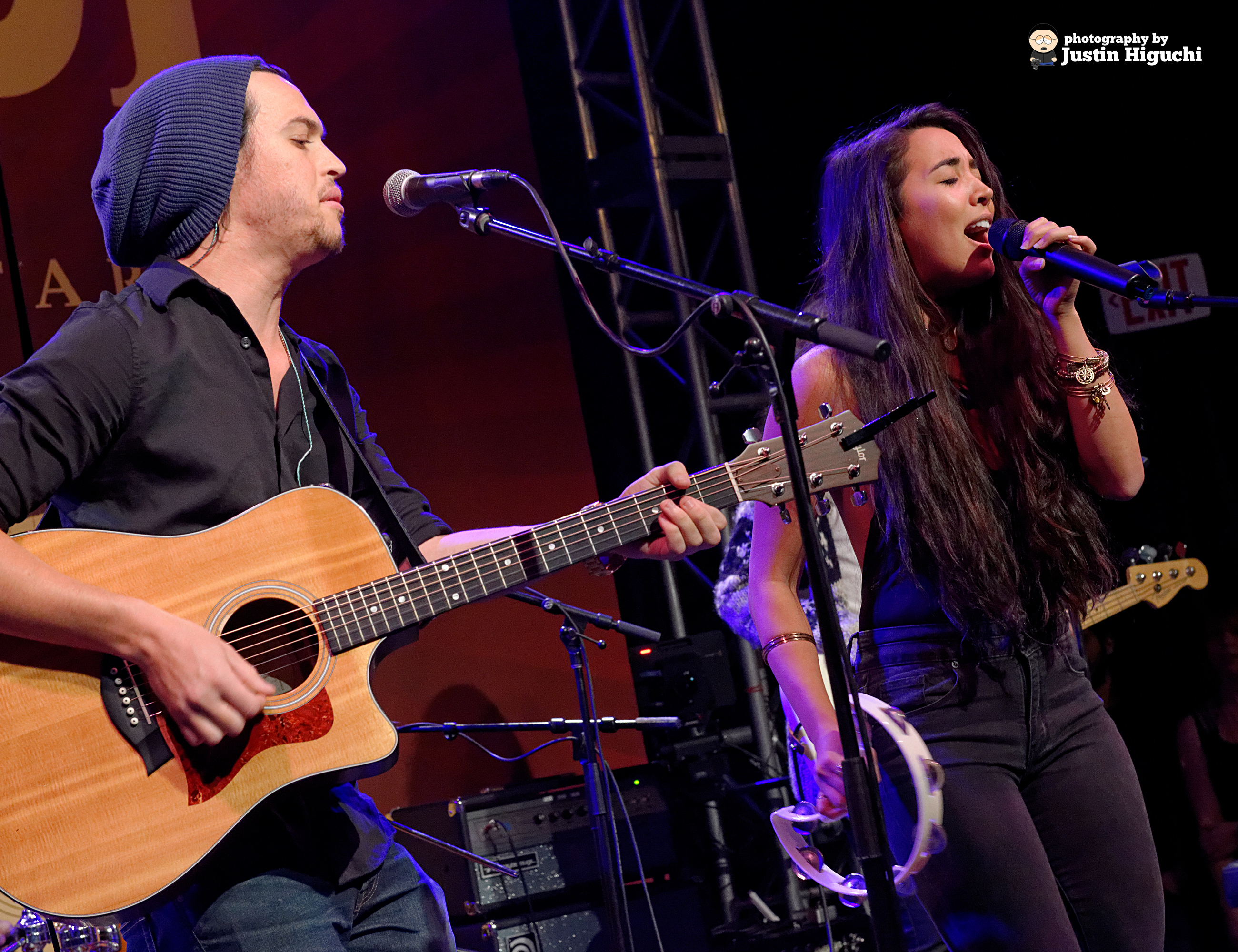 Alex & Sierra at the Winter NAMM Show 2015